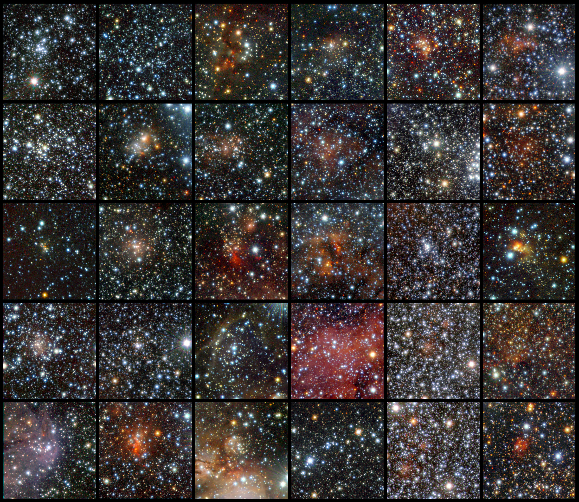 Using data from the VISTA infrared survey telescope at ESO’s Paranal Observatory, an international team of astronomers has discovered 96 new open clusters hidden by the dust in the Milky Way. Thirty of these clusters are shown in this mosaic. These tiny and faint objects were invisible to previous surveys, but they could not escape the sensitive infrared detectors of the world’s largest survey telescope, which can peer through the dust. This is the first time so many faint and small clusters have been found at once. The images are made using infrared light in the following bands: J (shown in blue), H (shown in green), and Ks (shown in red).